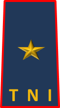 Rear Admiral (lower half) rank insignia that used on daily uniforms of Indonesian Navy (holder of command)